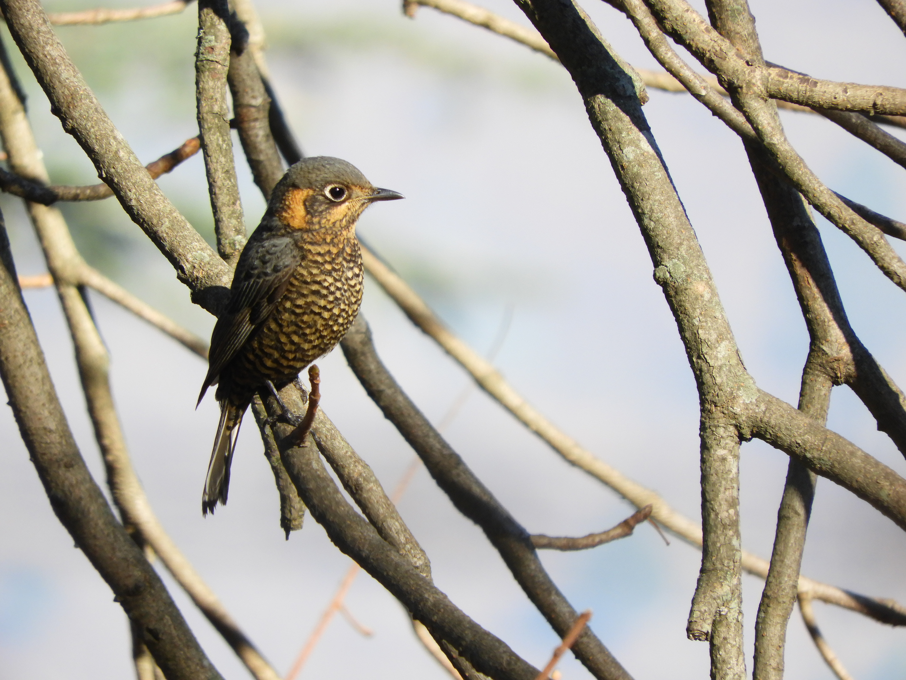 Chestnut-bellied Rock Thrush Female at Almora